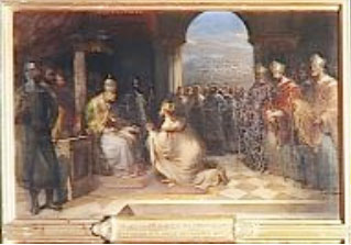 Pope Eugene III and Hugh of Jabala